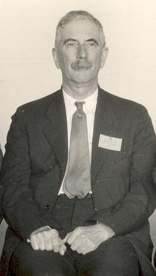 Charles Greeley Abbot, Secretary of the Smithsonian Institution and member of the National Advisory Committee for Aeronautics, attending the 9th Annual Aircraft Engineering Research Conference.